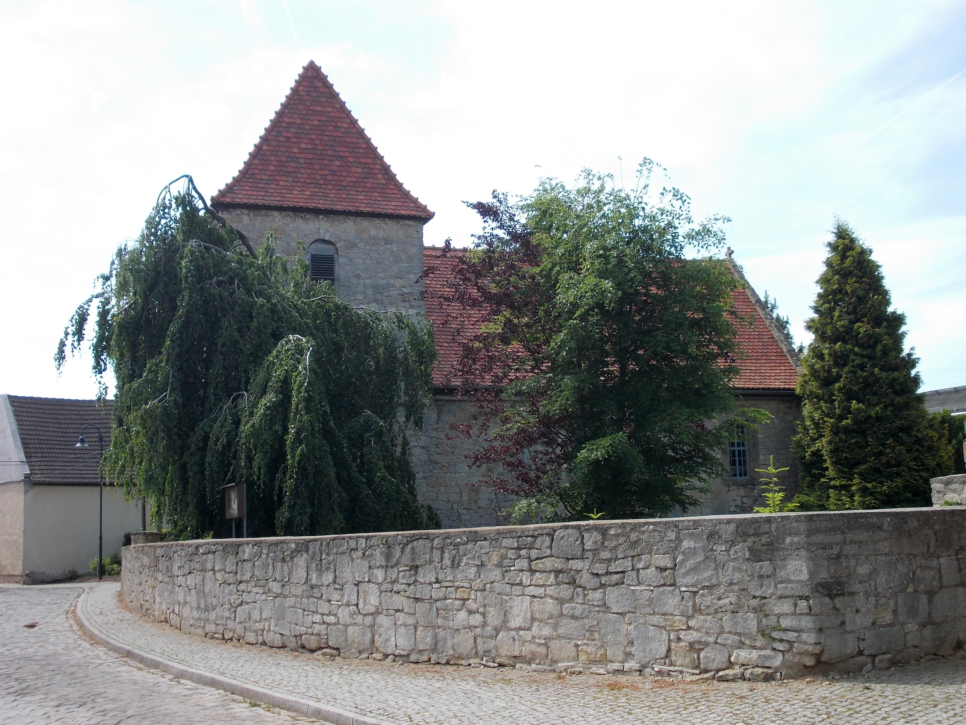 Grosswilsdorf church (Naumburg, district: Burgenlandkreis, Saxony-Anhalt)